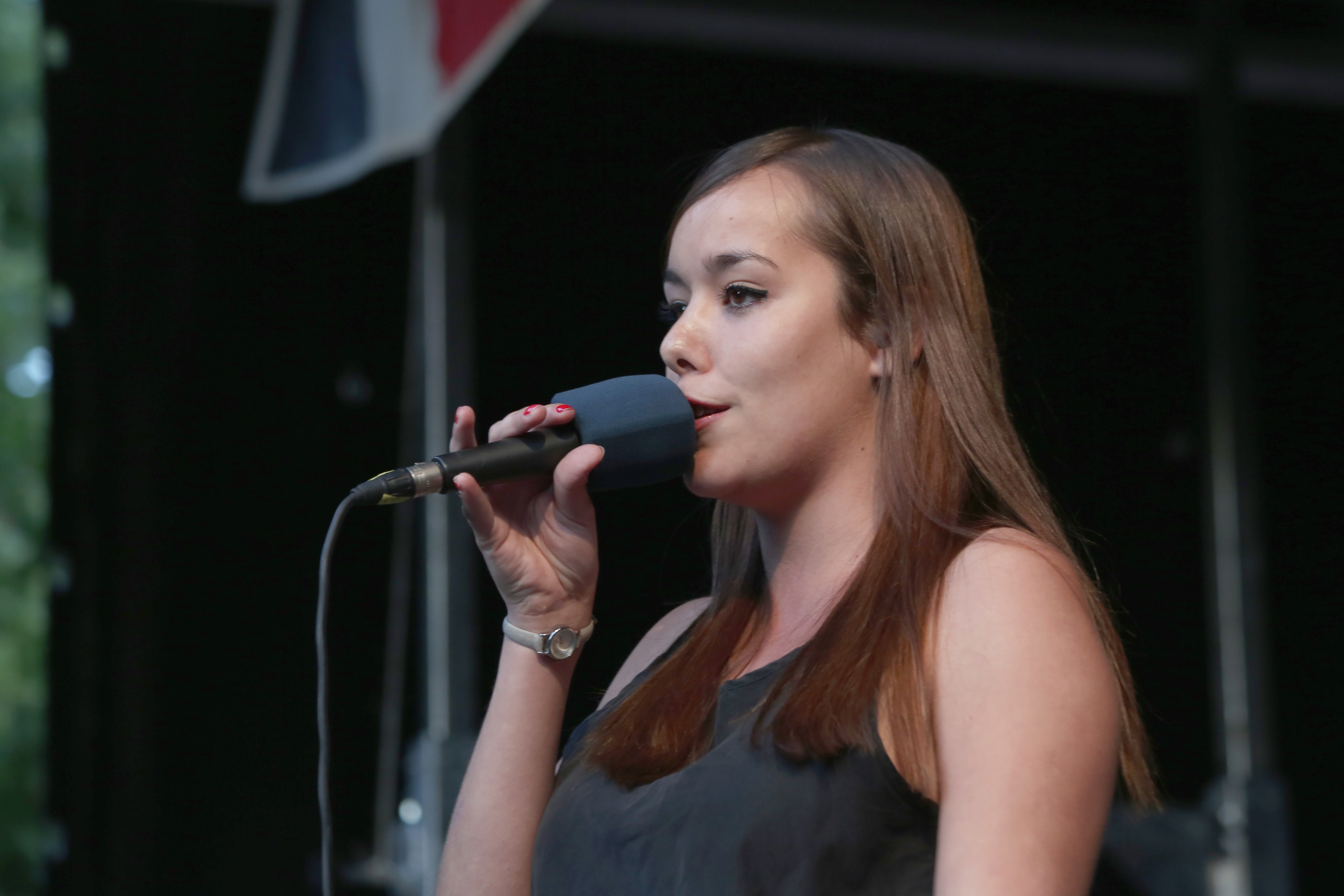 Yasmo feat. Giga Ritsch - concert at "Fest für den Rundfunk" at Karlsplatz in Vienna, Austria.